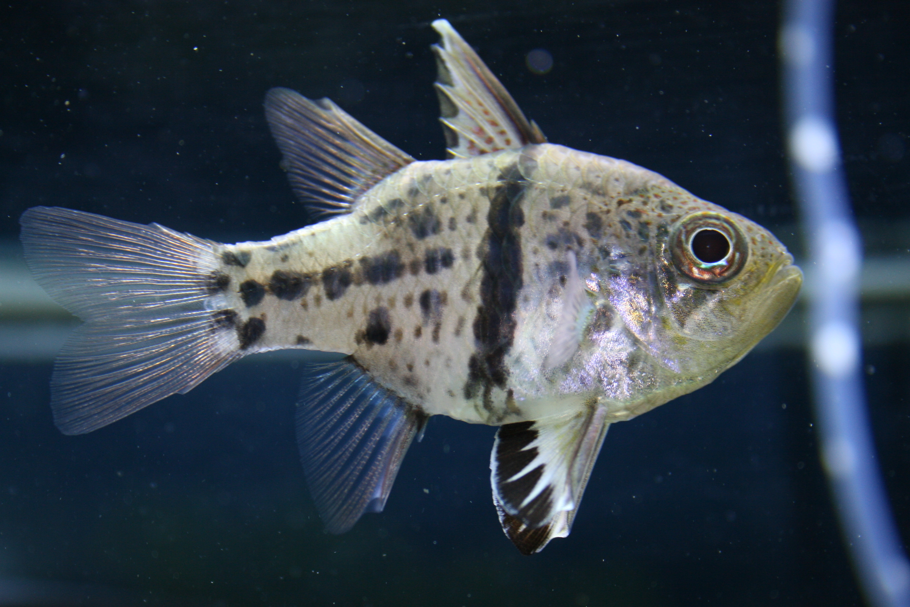 Orbic Cardinalfish, fish, saltwater, marine